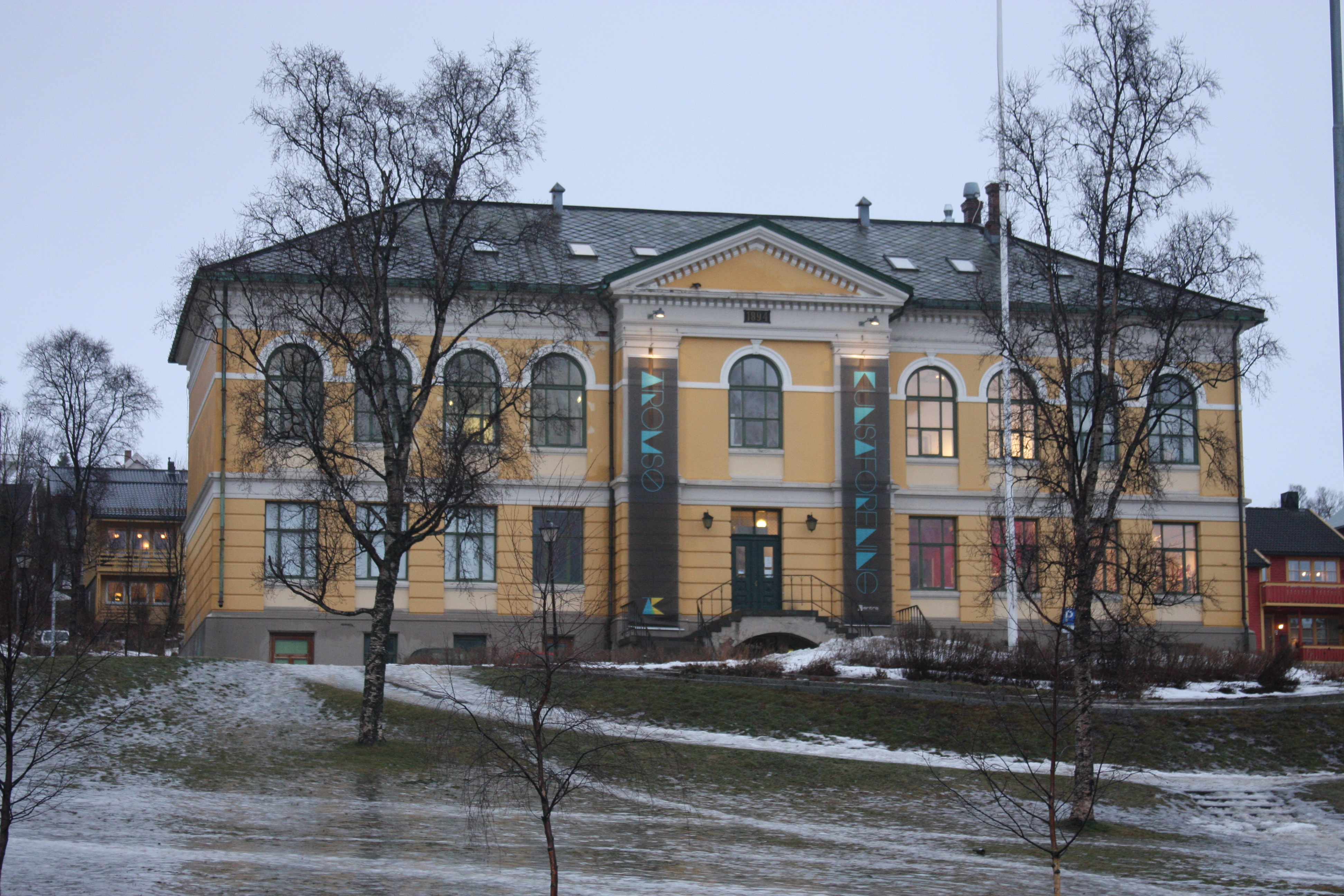 Tromsö kunstforening, Tromsö, Norway.